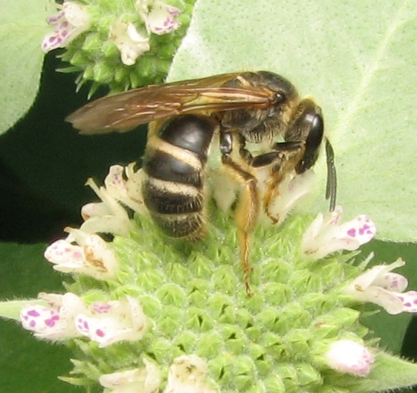 Lasioglossum (subgenus Lasioglossum) bee on mountain mint. Churchville Nature Center, Bucks County, Pennsylvania, USA. 40.1860° N, 74.9929° W.